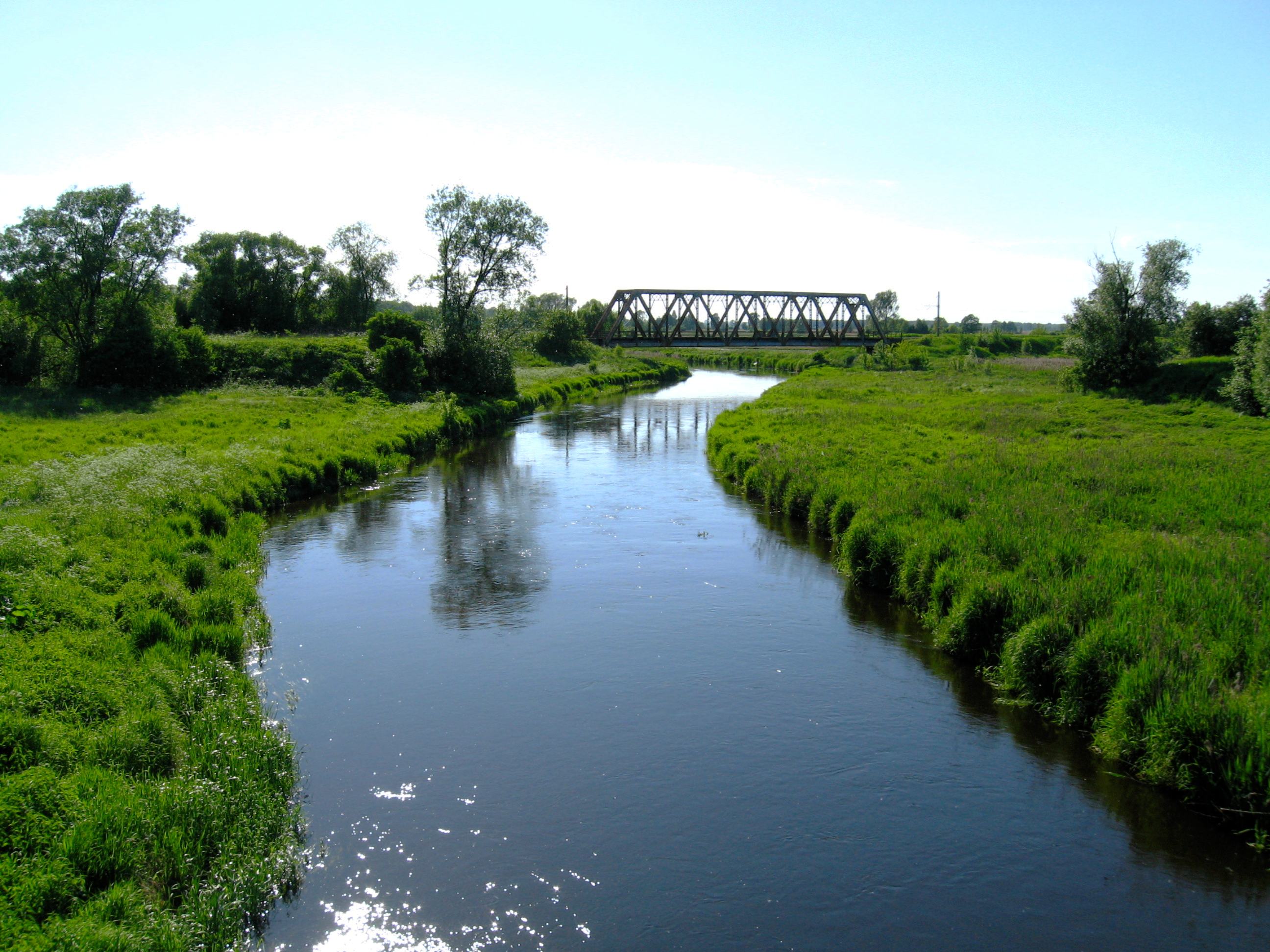 Supraśl river near Dzikie village (gmina Choroszcz) seen from bridge on route DK65; visible further: railorad bridge (railroad route no. 38).